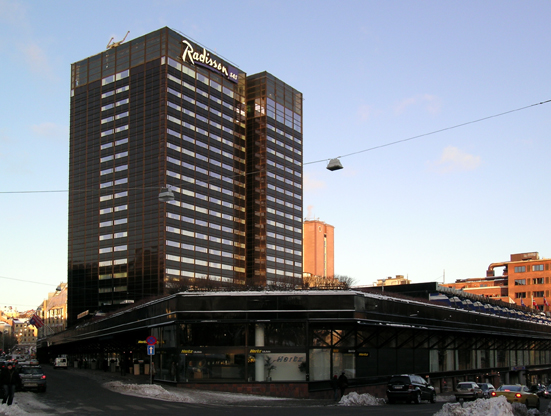 Radisson SAS Scandinavia Hotel Oslo, Holbergs gate 30. Erected 1975. Architect Jon Lunding.